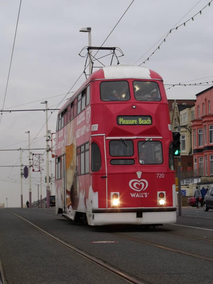 Newly modified Balloon tram.